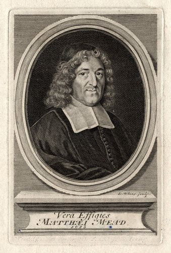 Engraving of Matthew Mead (Meade), nonconformist minister.